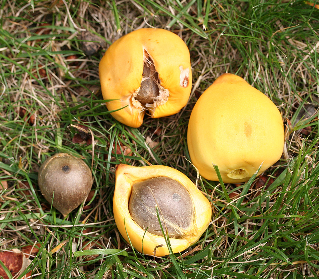 Jubaea chilensis (Chilean Wine Palm) fruits and nuts at the Royal Tasmanian Botanical Gardens, Hobart, Tasmania.